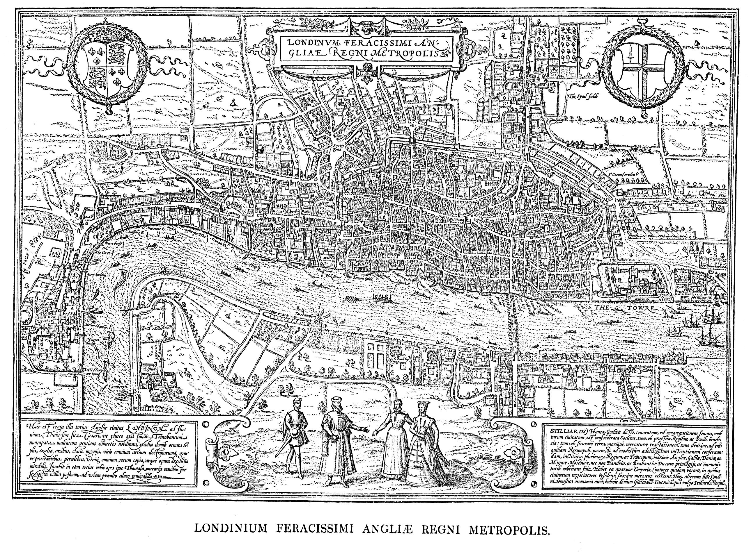 Joris Hoefnagel engraved many of the maps for Braun & Hogenburg's "Civitates Orbis Terrarum", from which this map is taken. The original is 19 x 12.75 inches. The inclusion of the steeple of St Paul's (destroyed in 1561) indicates that this map was taken from existing surveys.